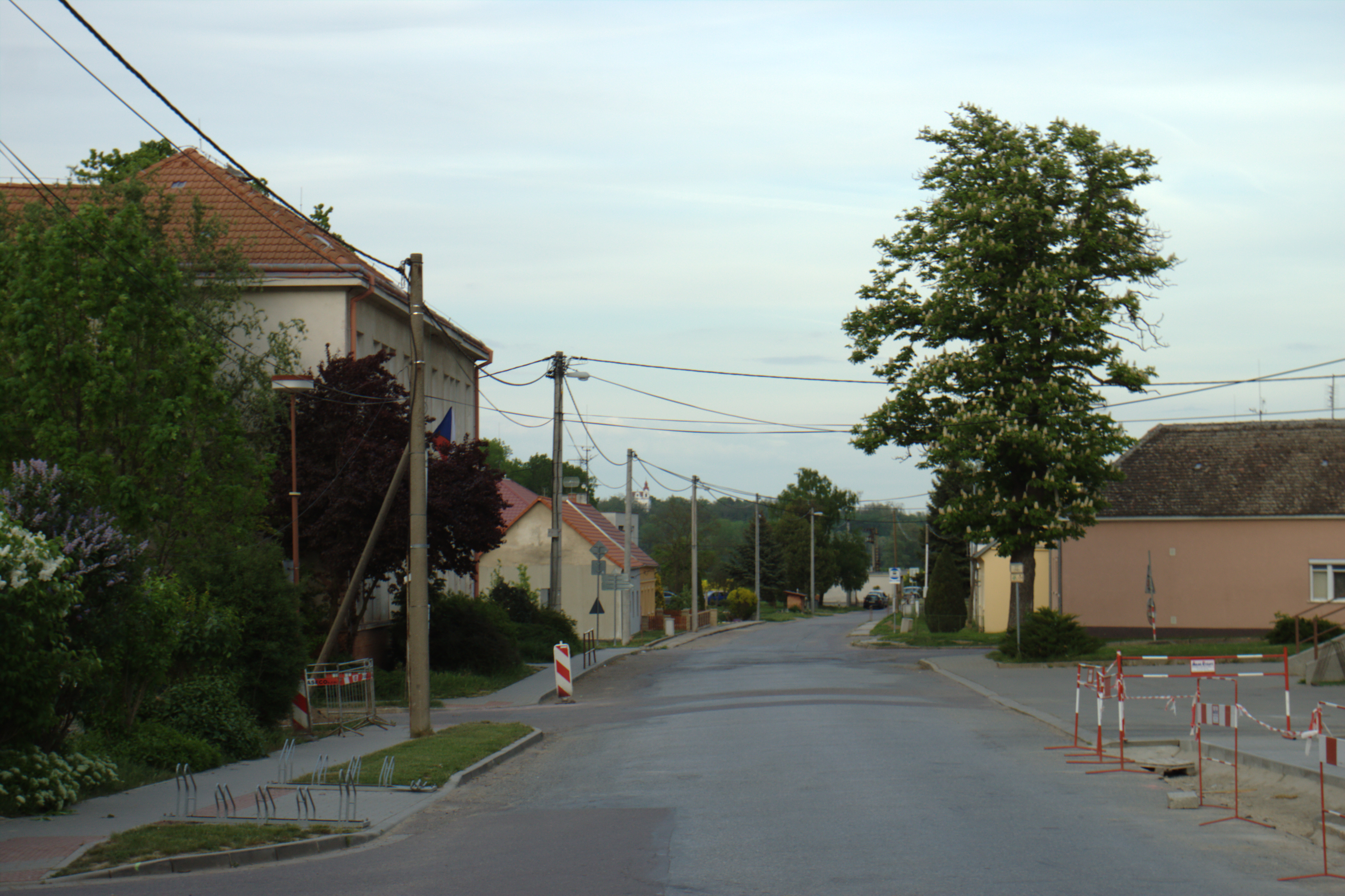 A road in the village of Práče, South Moravian Region, CZ